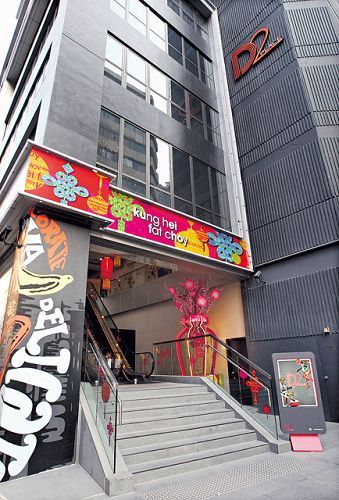 d2placeentrance